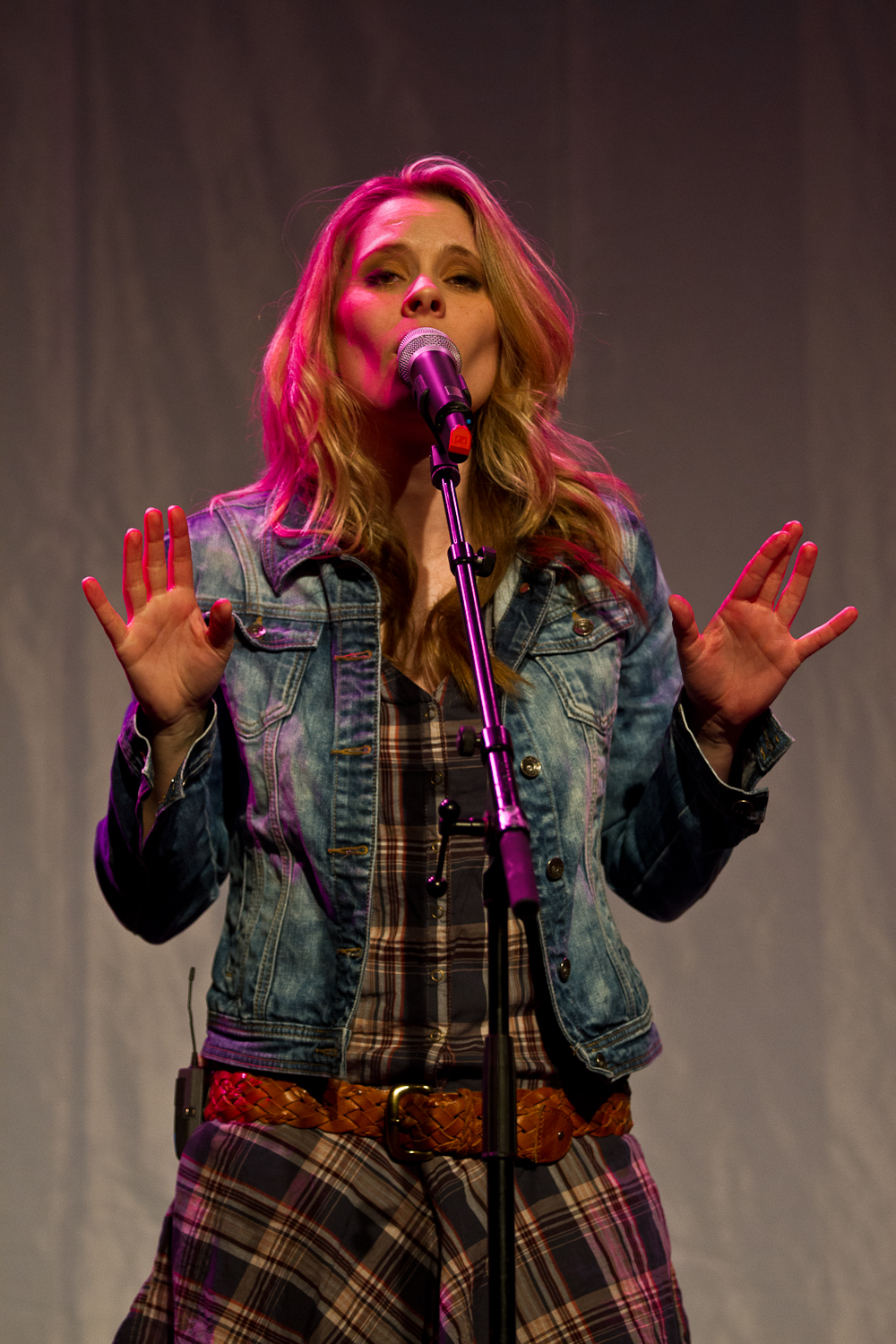 Tanja Bachmann of TinkaBelle 2013 at the Gürzenich Cologne